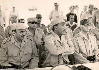 Saad el-Shazly مناورة 23 يوليو 1971 مع الرئيس السادات و وزير الدفاع صادق